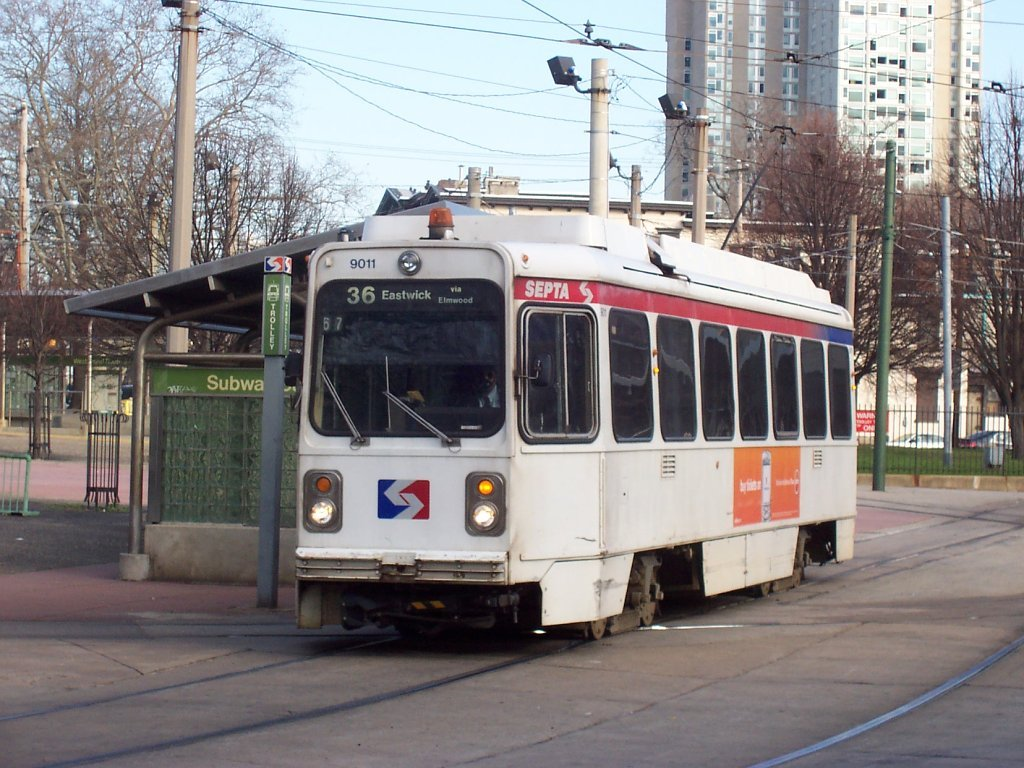 SEPTA Subway-Surface tram #9011 at the 40th Street Station in Philadelphia.